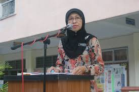 Pengetua kedua smk telok mas